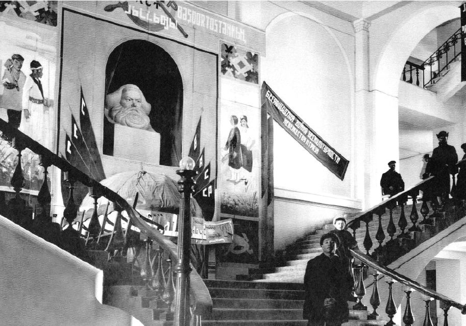 Bashkir Opera and ballet theatre, foyer, 1940